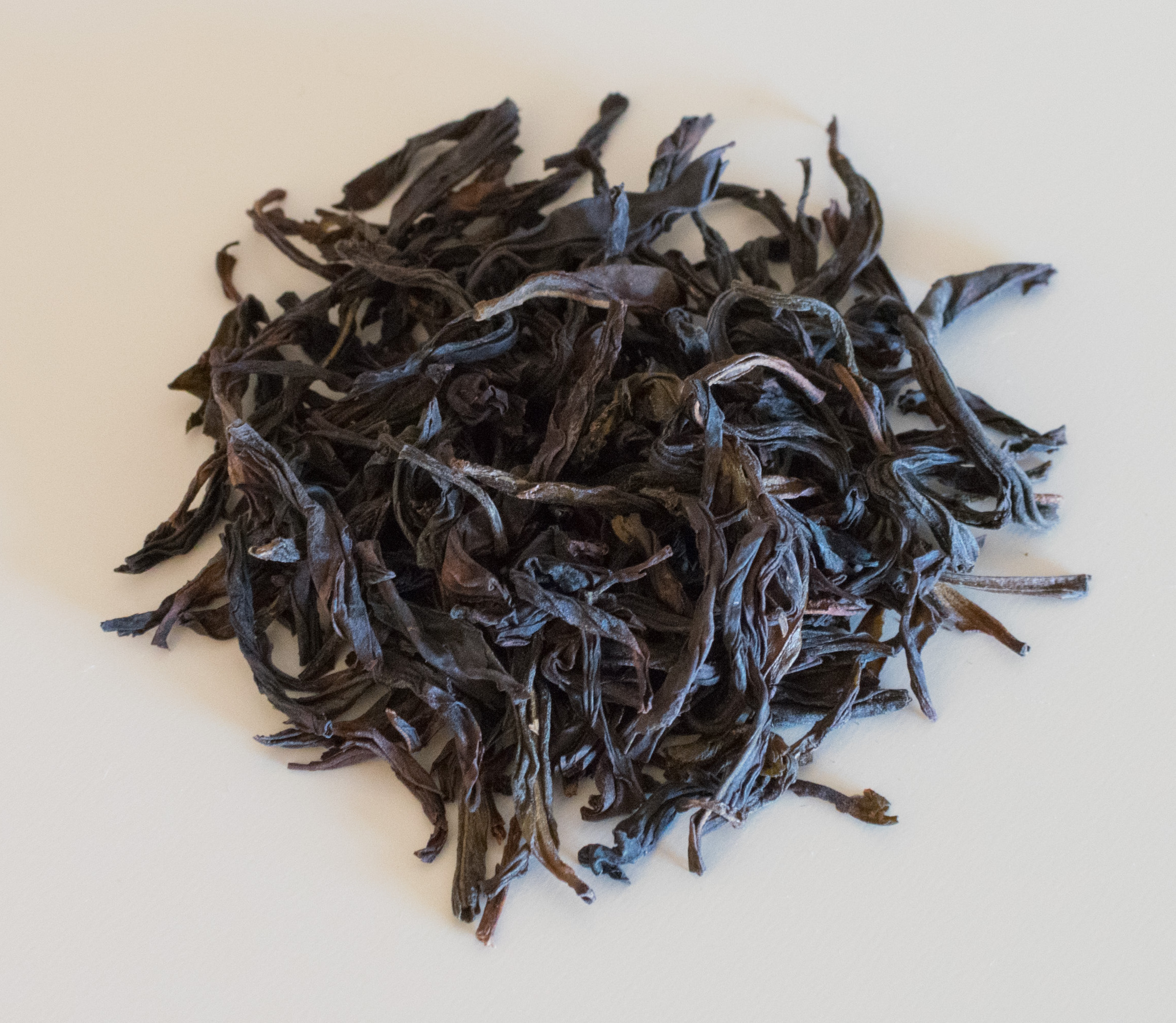 Mi Lan Xiang dancong oolong tea, harvested in April 2018 in Wudong, Chaozhou, Guangdong, China.